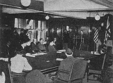 Allied Council for Japan